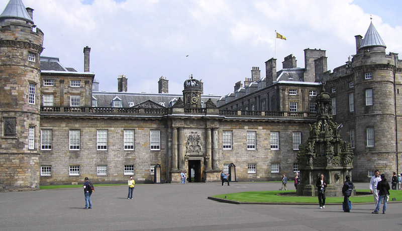 Holyrood Palace in Edinburgh, Scotland Photo taken by Finlay McWalter on 7th August en:2004